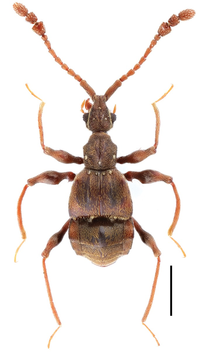 Male habitus of Labomimus cognatus. Scale: 1.0 mm.